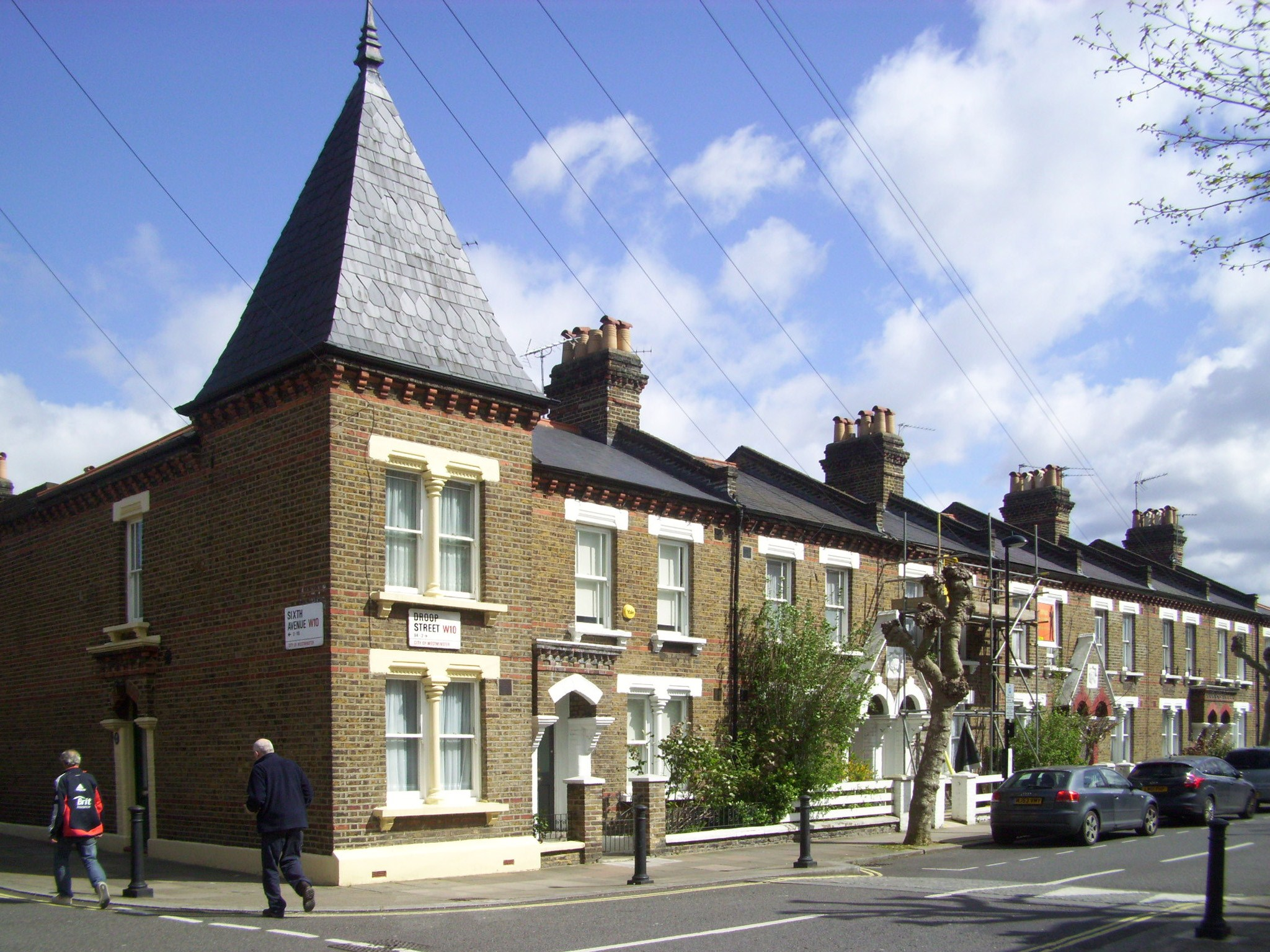 Droop Street, W10